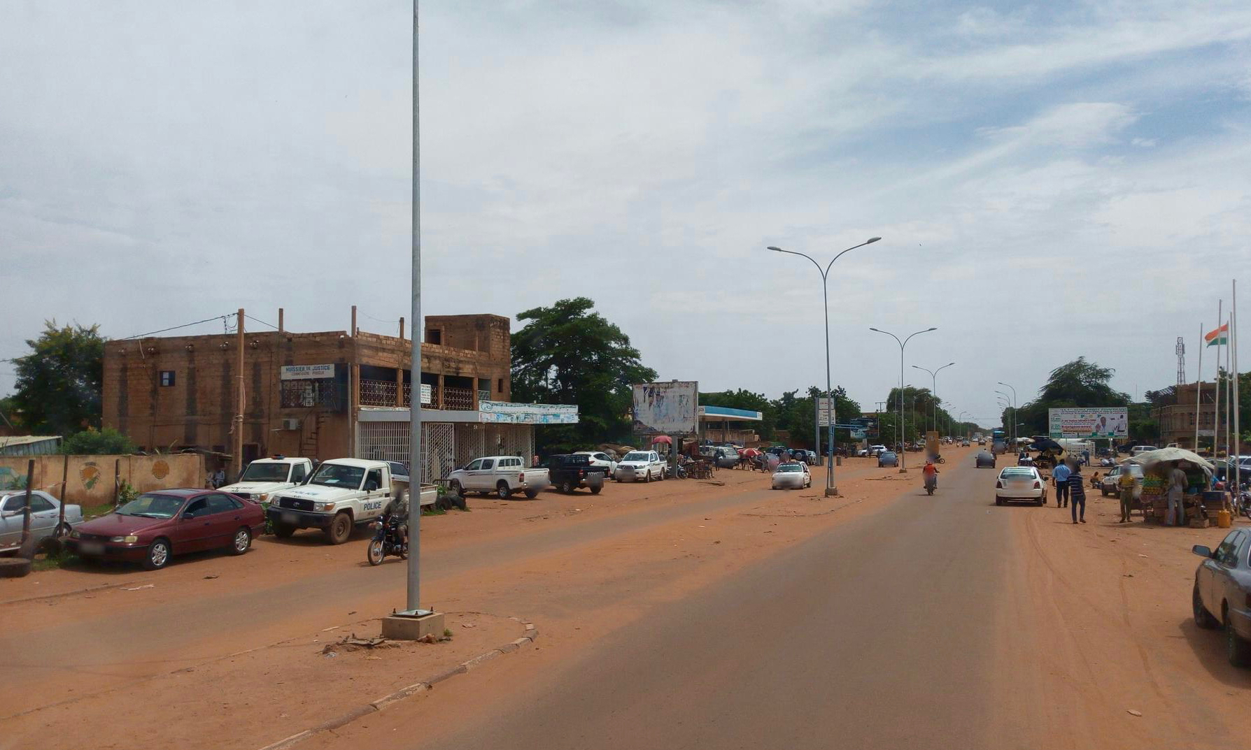 Avenue des Aménokal as the boundary road between the quarters of Bandabari (left) and Route Filingué (right), Niamey.